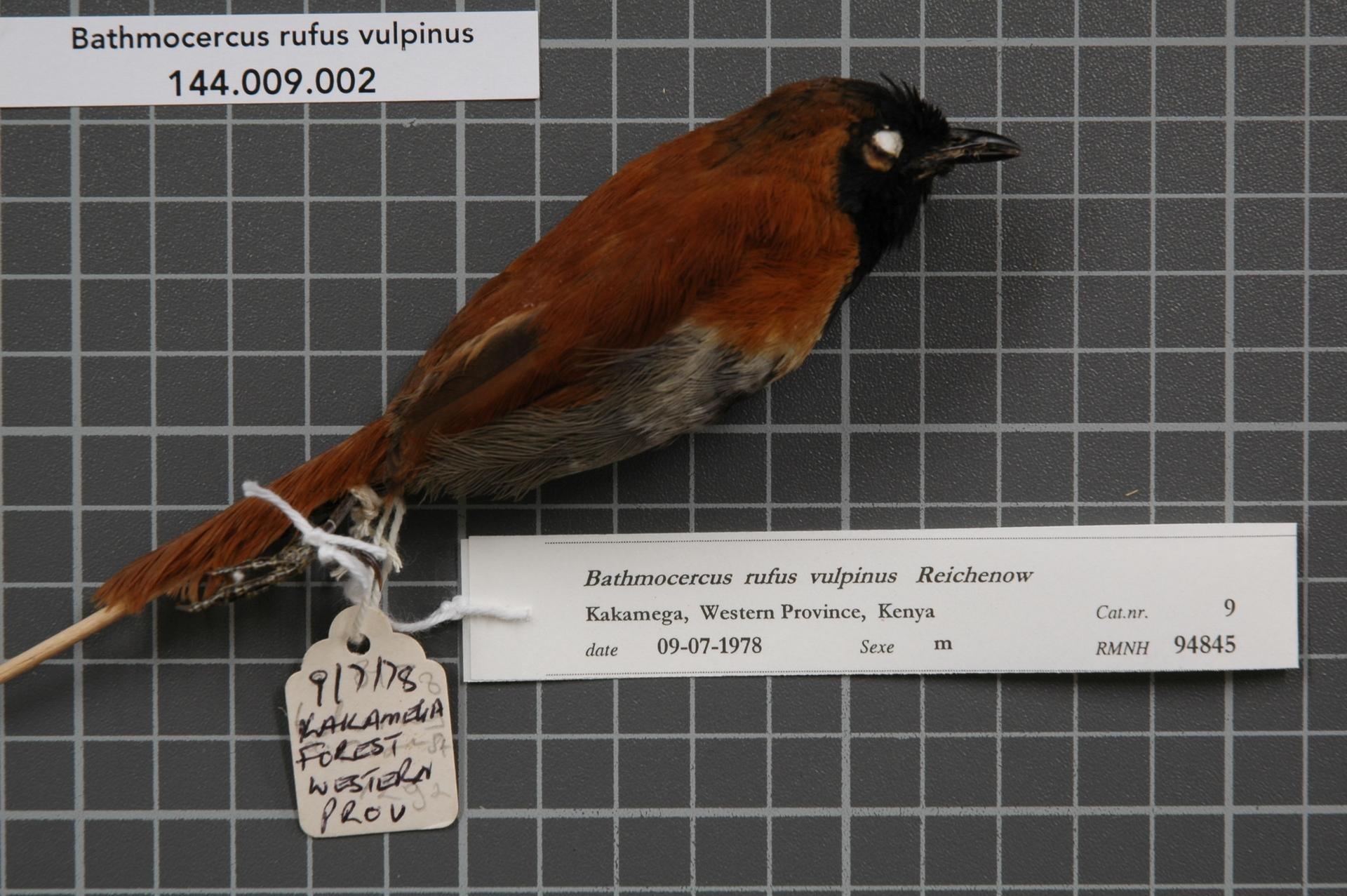 Bathmocercus rufus vulpinus Reichenow, 1895